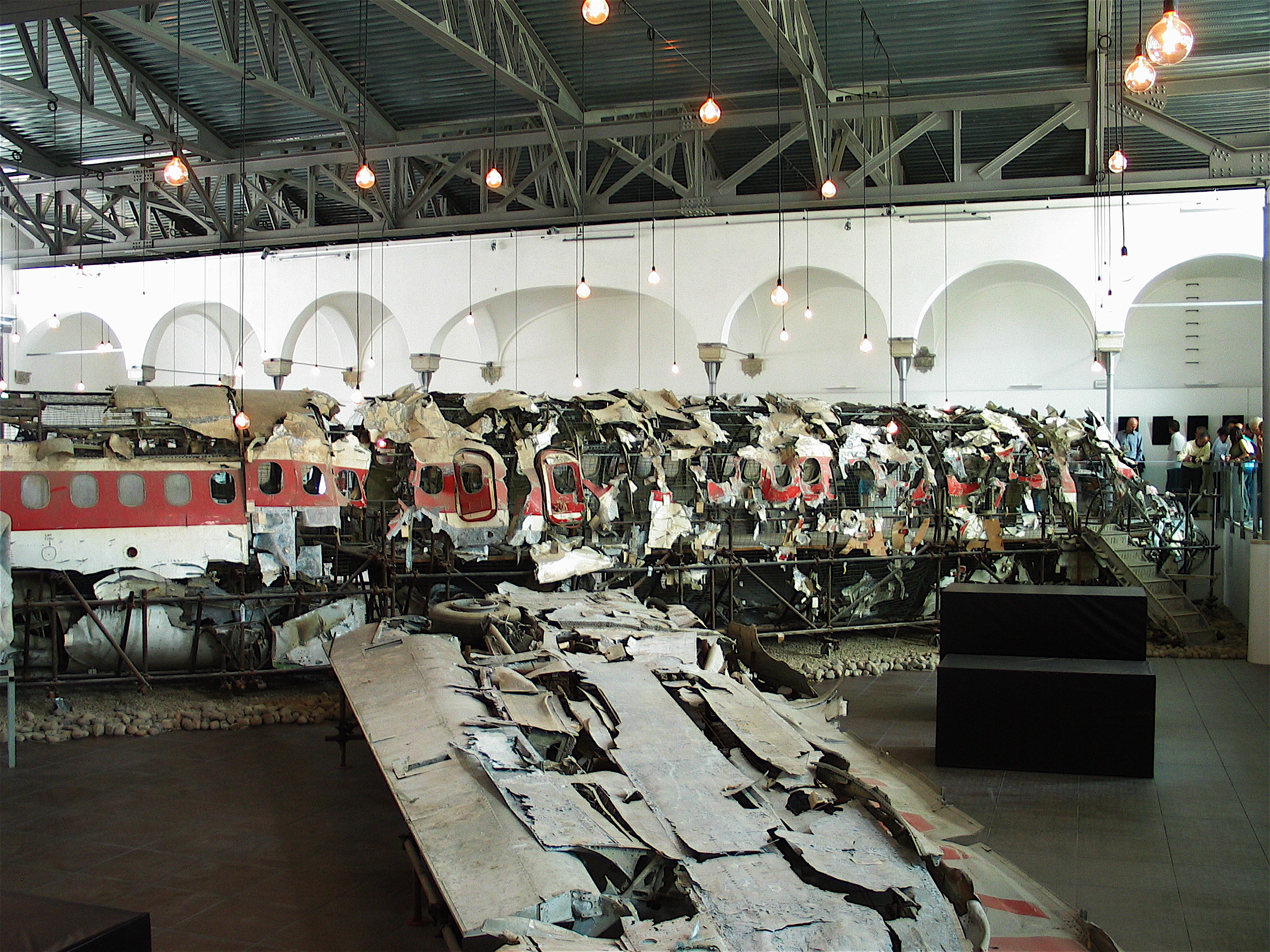 "opening of the museum to remember Ustica in bologna